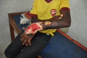 This picture is a part of burli ulcer.